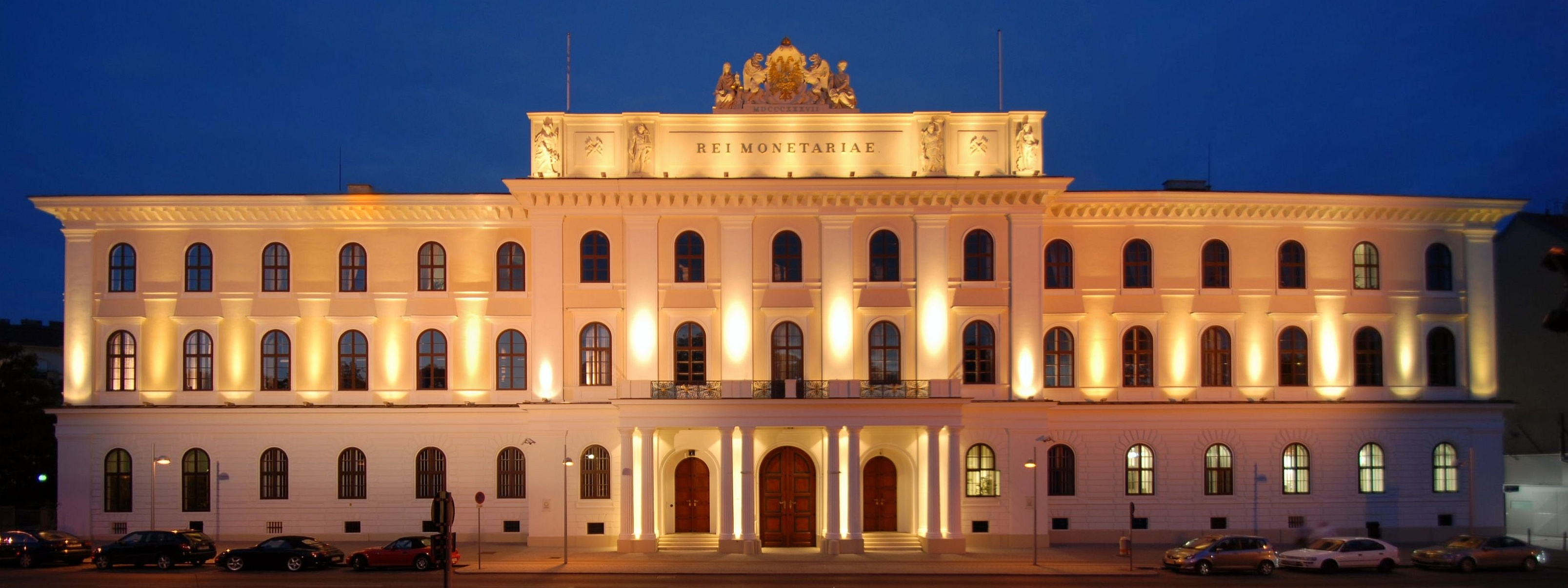 Austrian Mint, Am Heumarkt 1, 3rd district of Vienna